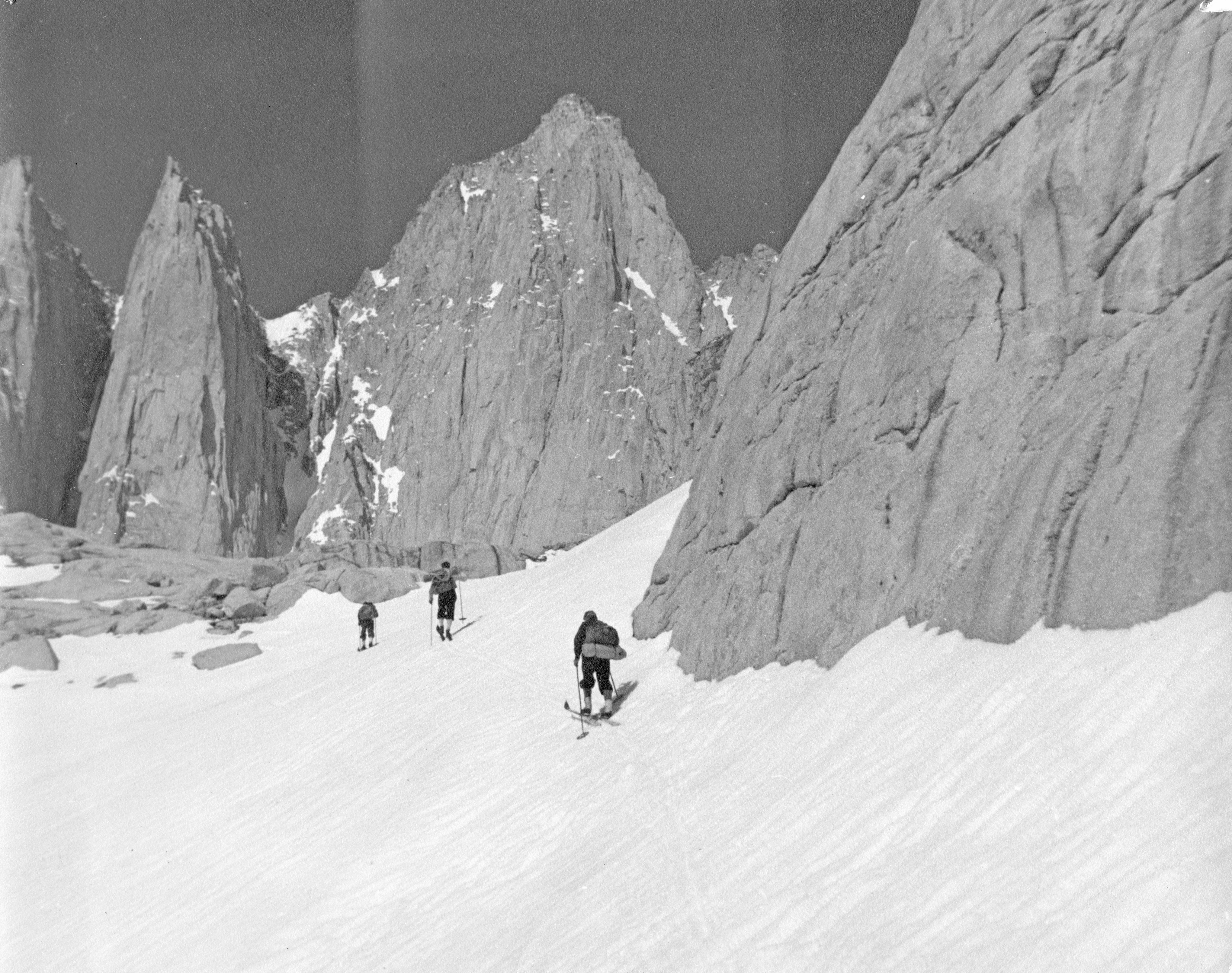 First winter crossing by ski of the Whitney Russell Pass by Robert Brinton, Howard Koster, Dick Jones, Philip Faulconer, and Glen Dawson, May 1938